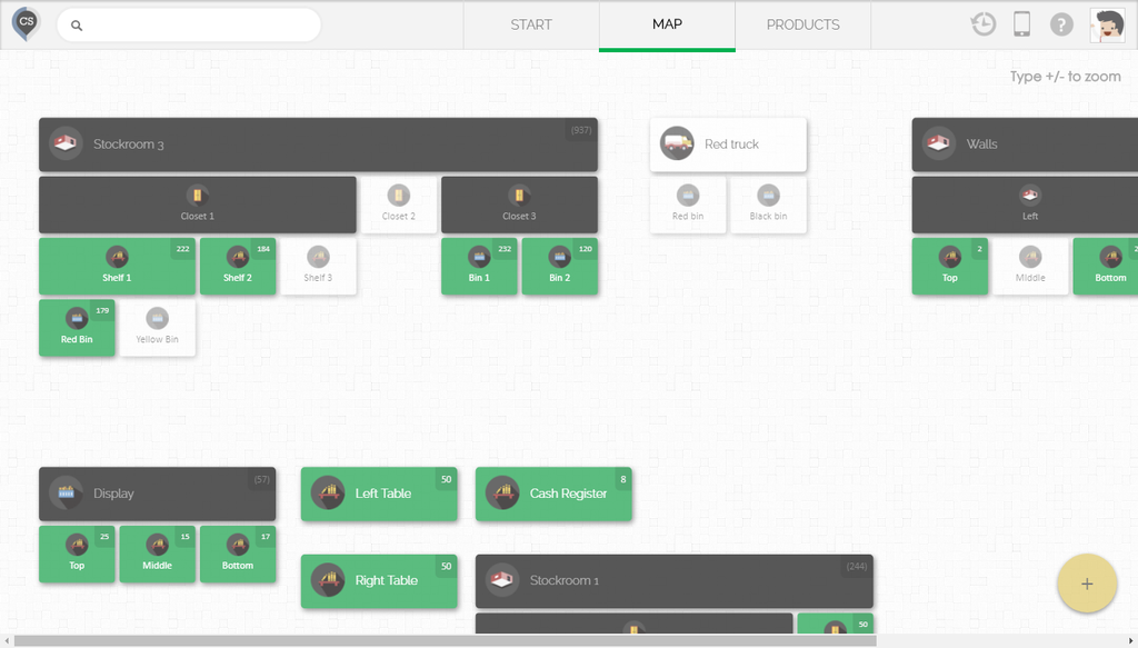 In a non-spatial map, like this one showing inventory locations, the distances between locations is not important. Only the layout and connectivity between them matters.